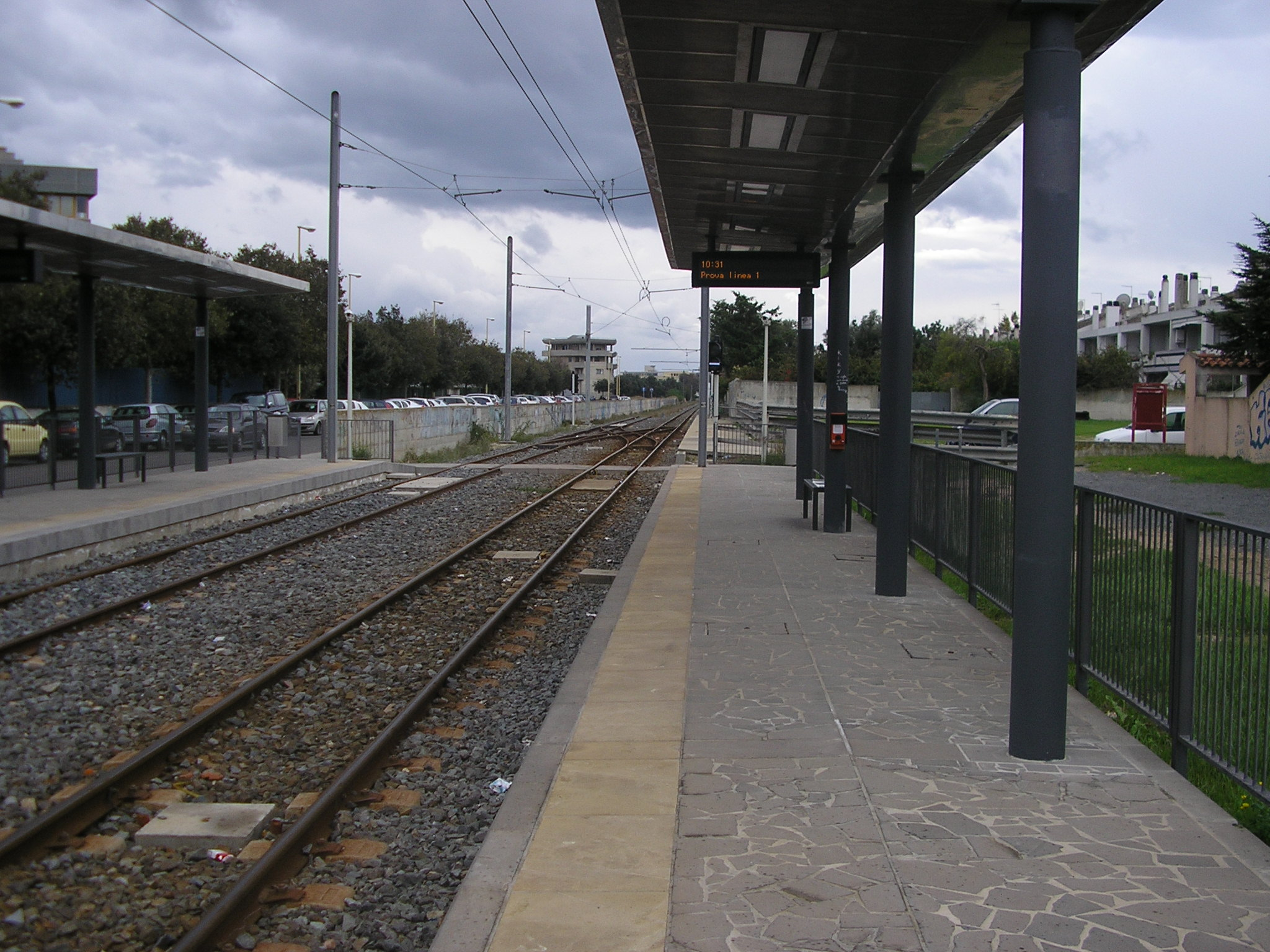 The via Vesalio halt in Cagliari, Sardinia, Italy, until 2008 used for the railway Cagliari-Isili and now for the light railway of Cagliari